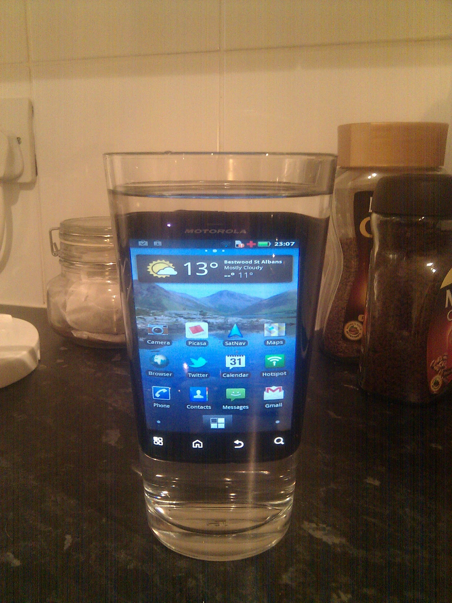 The UK GSM edition of the Motorola Defy Plus mobile phone shown on a customised home screen while submerged in water in a pint glass.